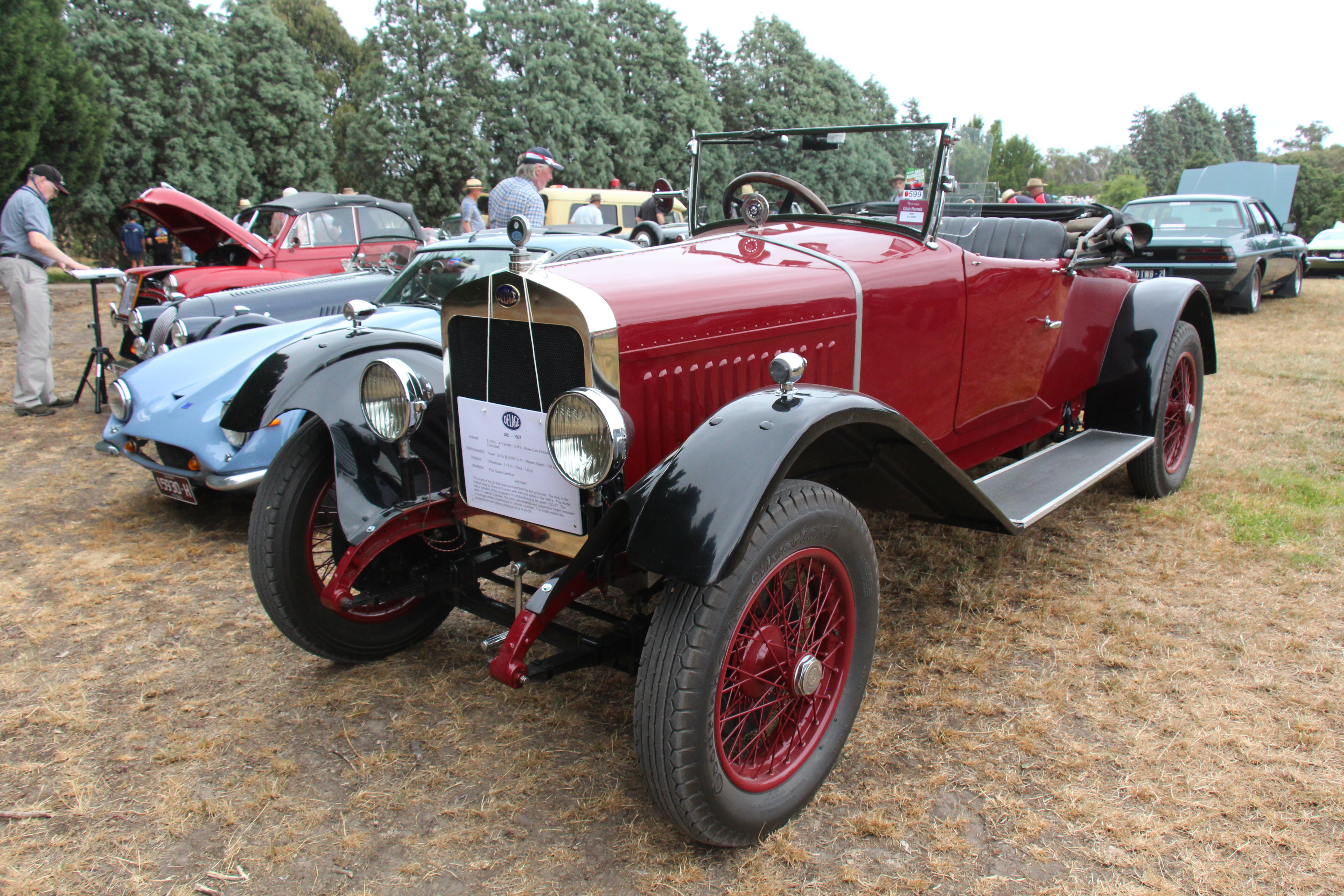 1927 Delage DIC coupé(from label on car) Engine 2120 cc 4 cylinder, OHV, roller cam followers xxxxx crankshaft, 36 hp @ 3000 rpm (???) Chassis wheelbase 3.18m track 1.4m Four speed gearbox This car is one of the 28 (or 25 or 23) that have survived from the 424 produced. The body is the original body by xxxxx (Broom?) of London with the hood added in the 1990s This model was a variation of the successful DI produced during the years 1923-1927 The letter C was for Colonial. The track was widened and suspension height increased to manage xxx roads found in colonial countries. This model retains the xxxxx road holding characteristics of the DI.